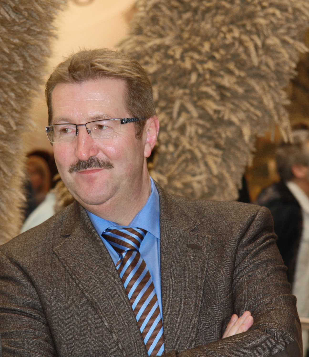 Dr. Robert Kloos